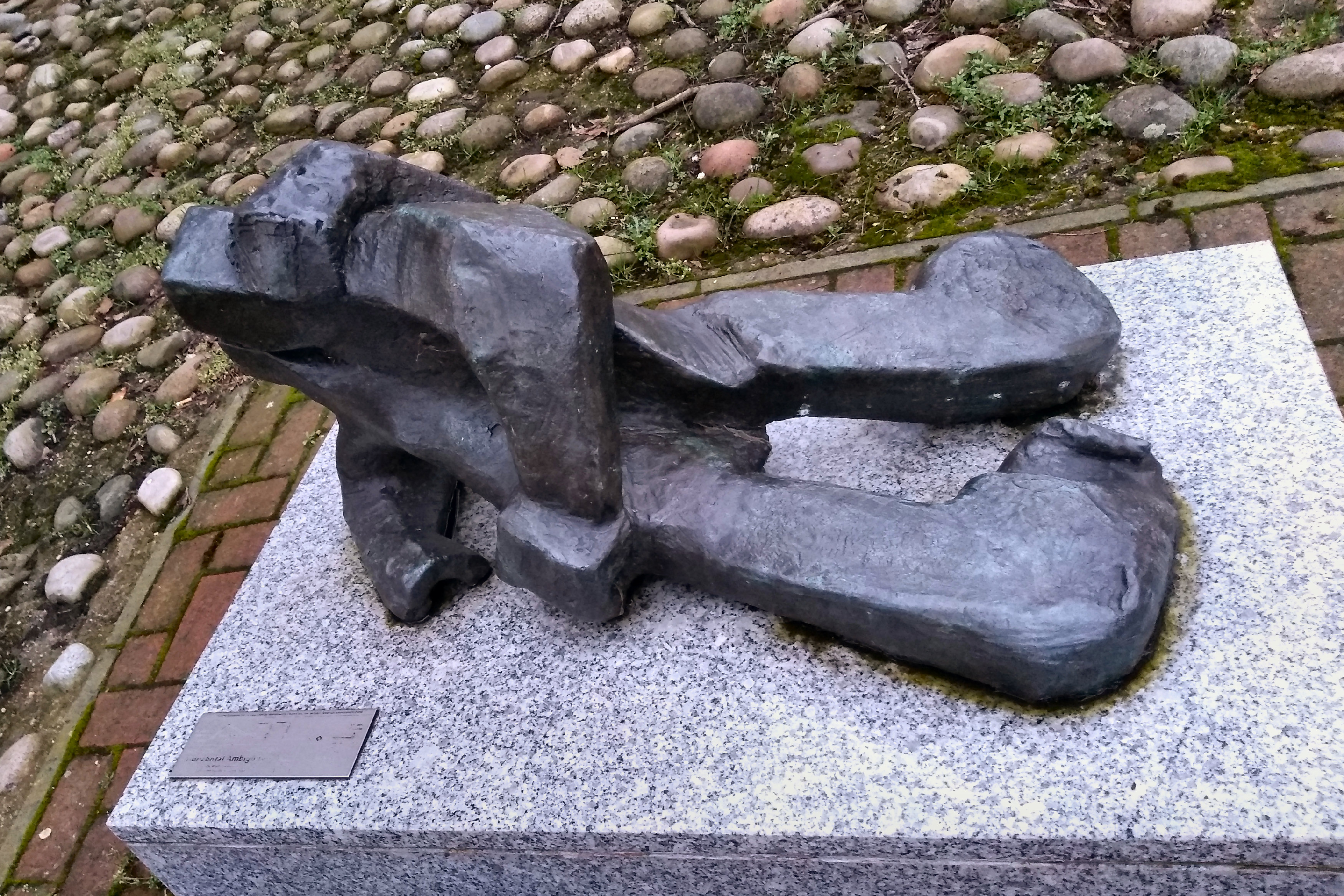 Putney, Horizontal Ambiguity by Alan Thornhill, Thames Place SW15